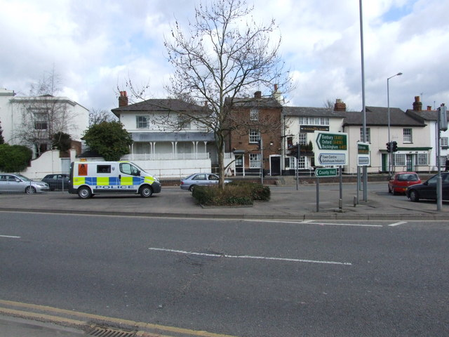 Walton Street at Giratory Tax collector preying on the unwary.